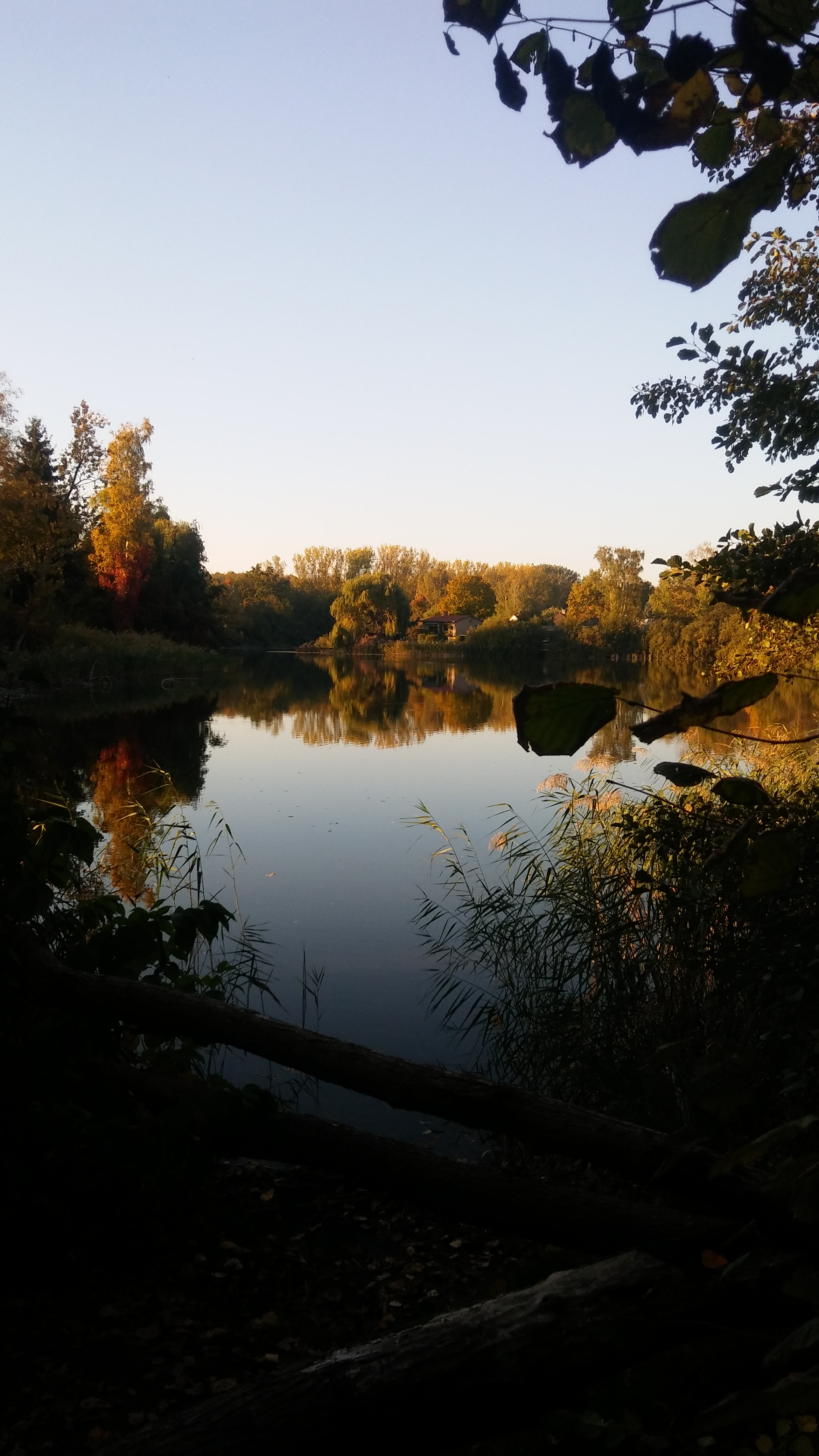 Spätsommerliches Bild der Hönower Seeen